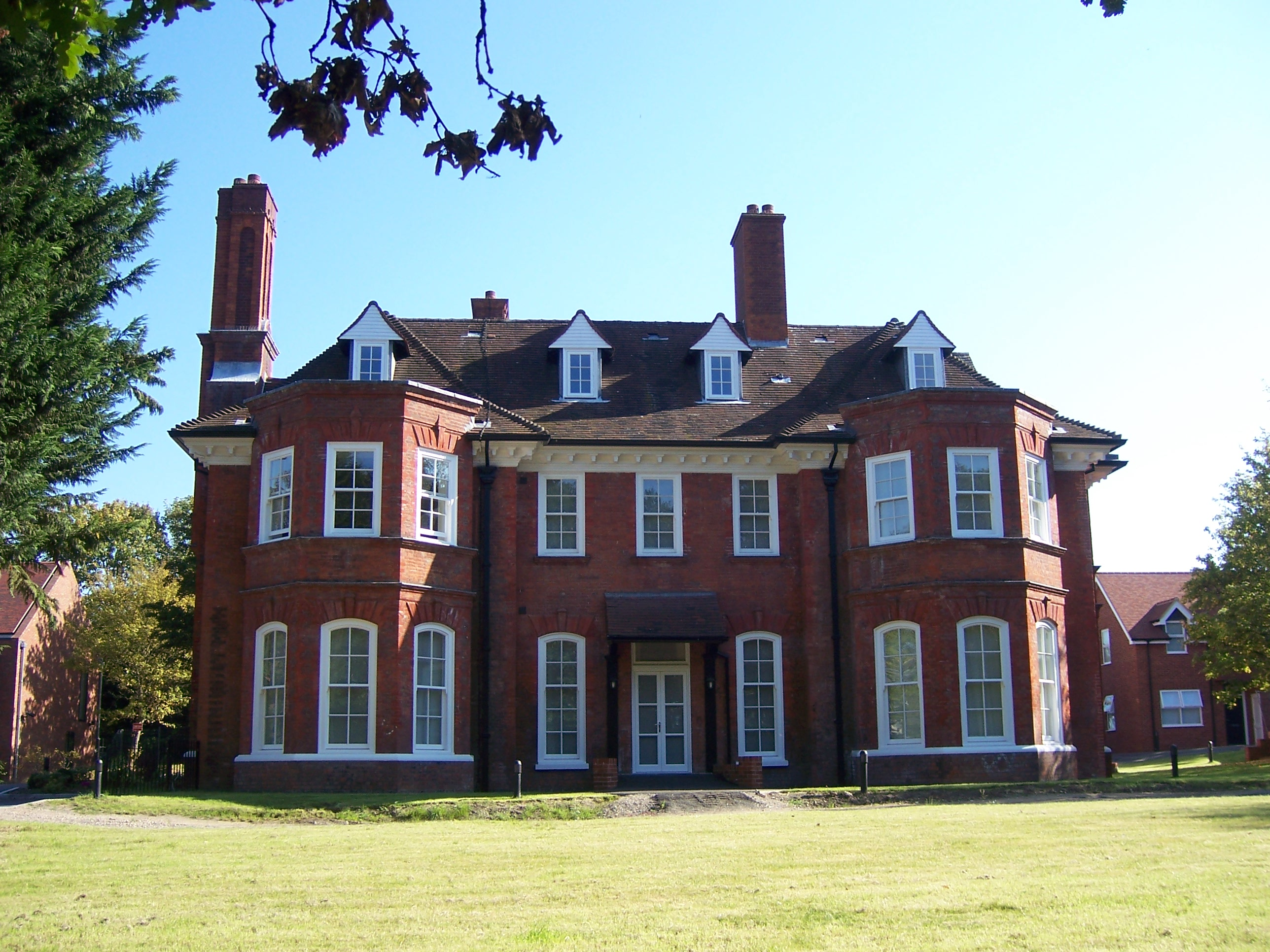 View of the eastern facade of Highgrove House in Eastcote.